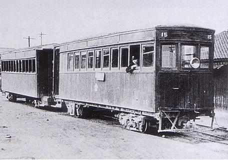 A gasoline railcar used in Asakura Tramway.